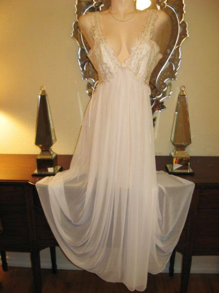 Soft luxurious sheer nightgown